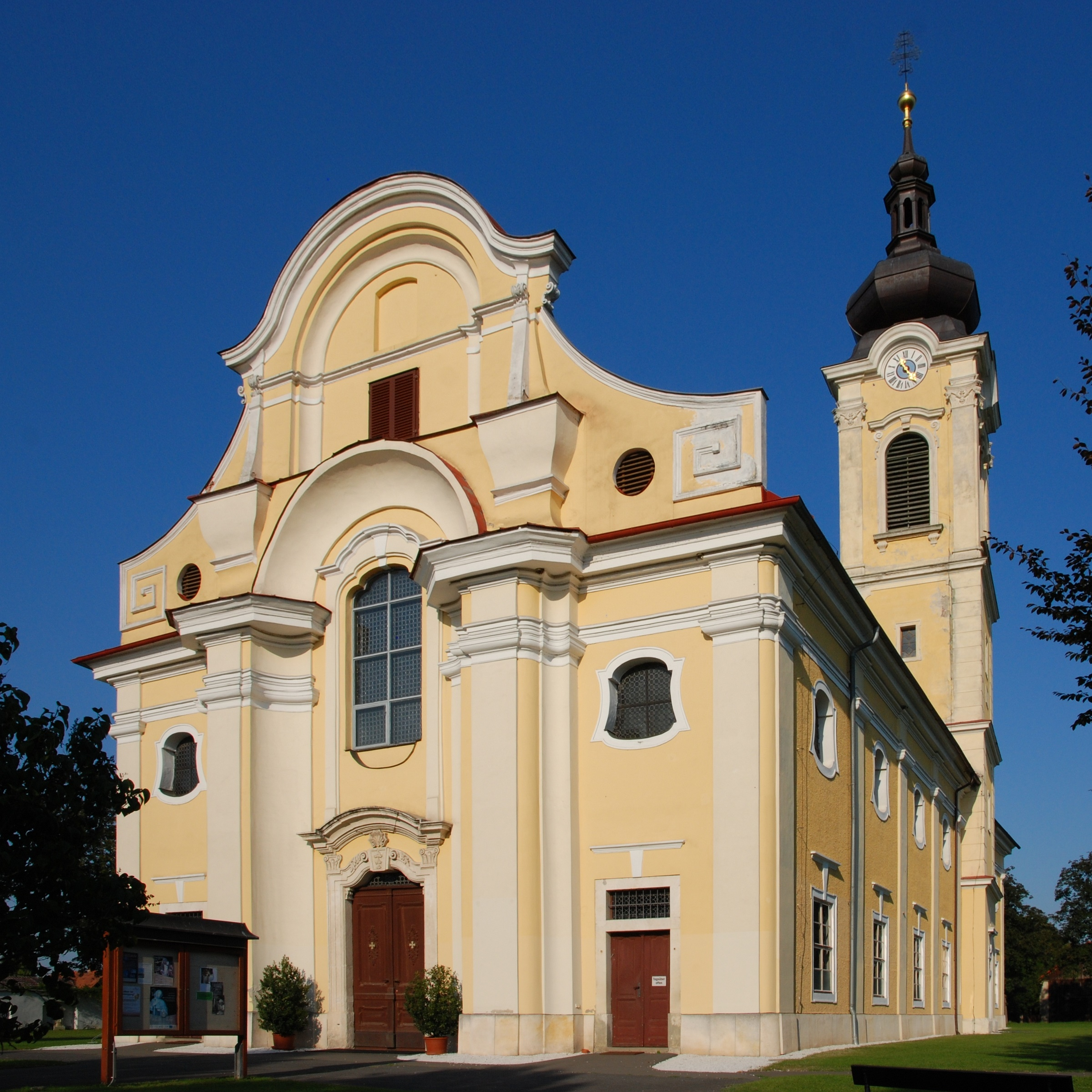 Church Mureck